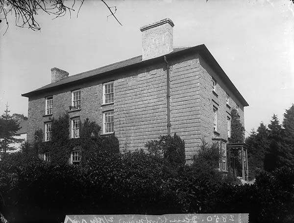 1 negative : glass, dry plate, b&w ; 16.5 x 21.5 cm.